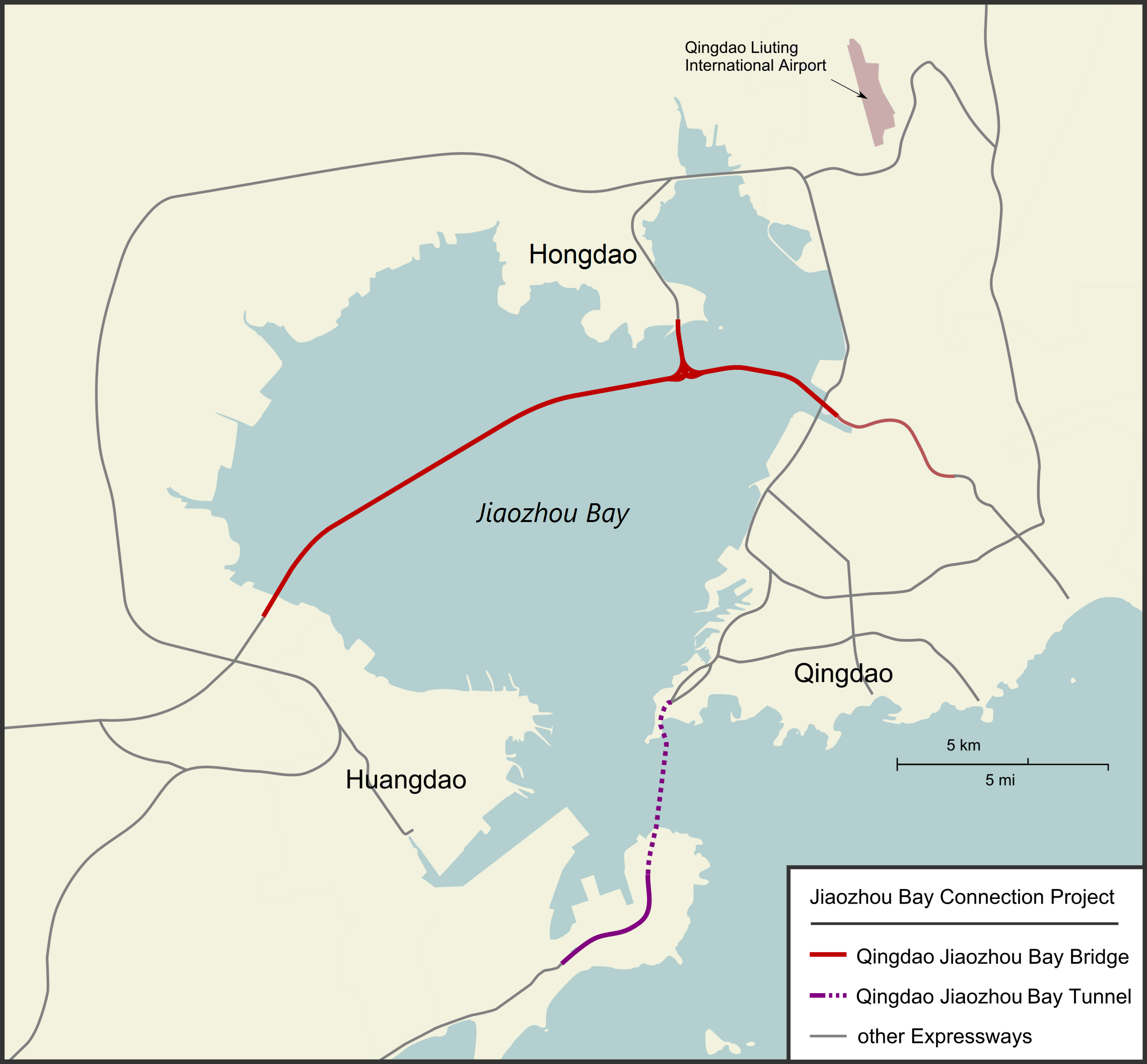 General map of the Jiaozhou Bay Bridge